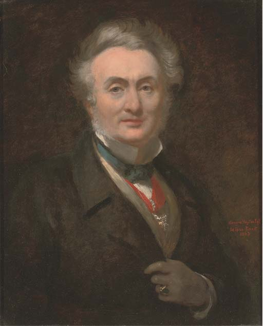 Self Portrait of Sir George Hayter dated 1863